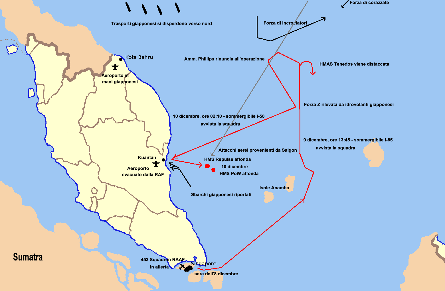 Map of Malaysia and sea with the route followed by Force Z from december,8 to december, 10 1941 until the sinking of HMS Repulse and HMS Prince of Wales